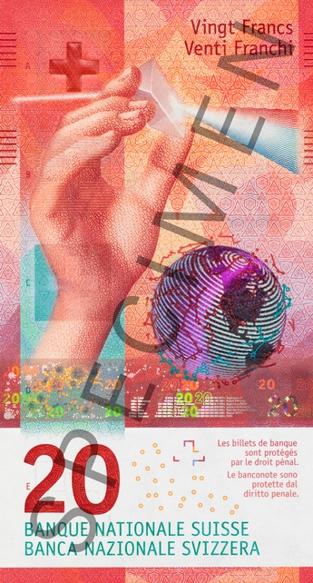 Front of the Swiss 20-franc banknote, ninth series (issued in 2017).